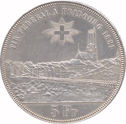 1881 Shooting Thaler Obverse